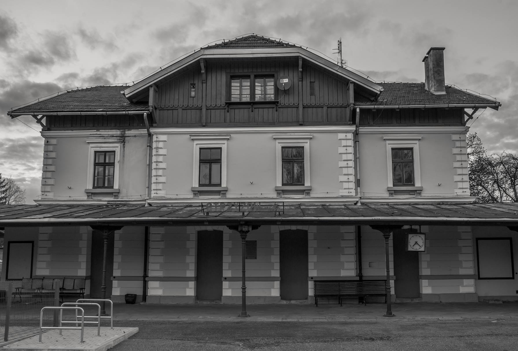 Train station in Strzyżów.